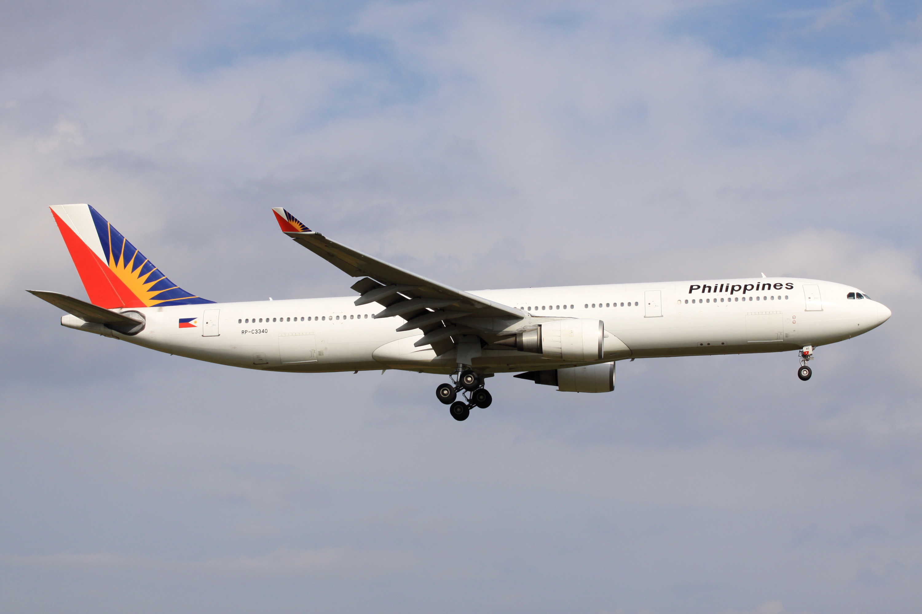 Final approach to Runway 16R, Narita International Airport, Airbus A330-301, c/n:203 Philippine Airlines